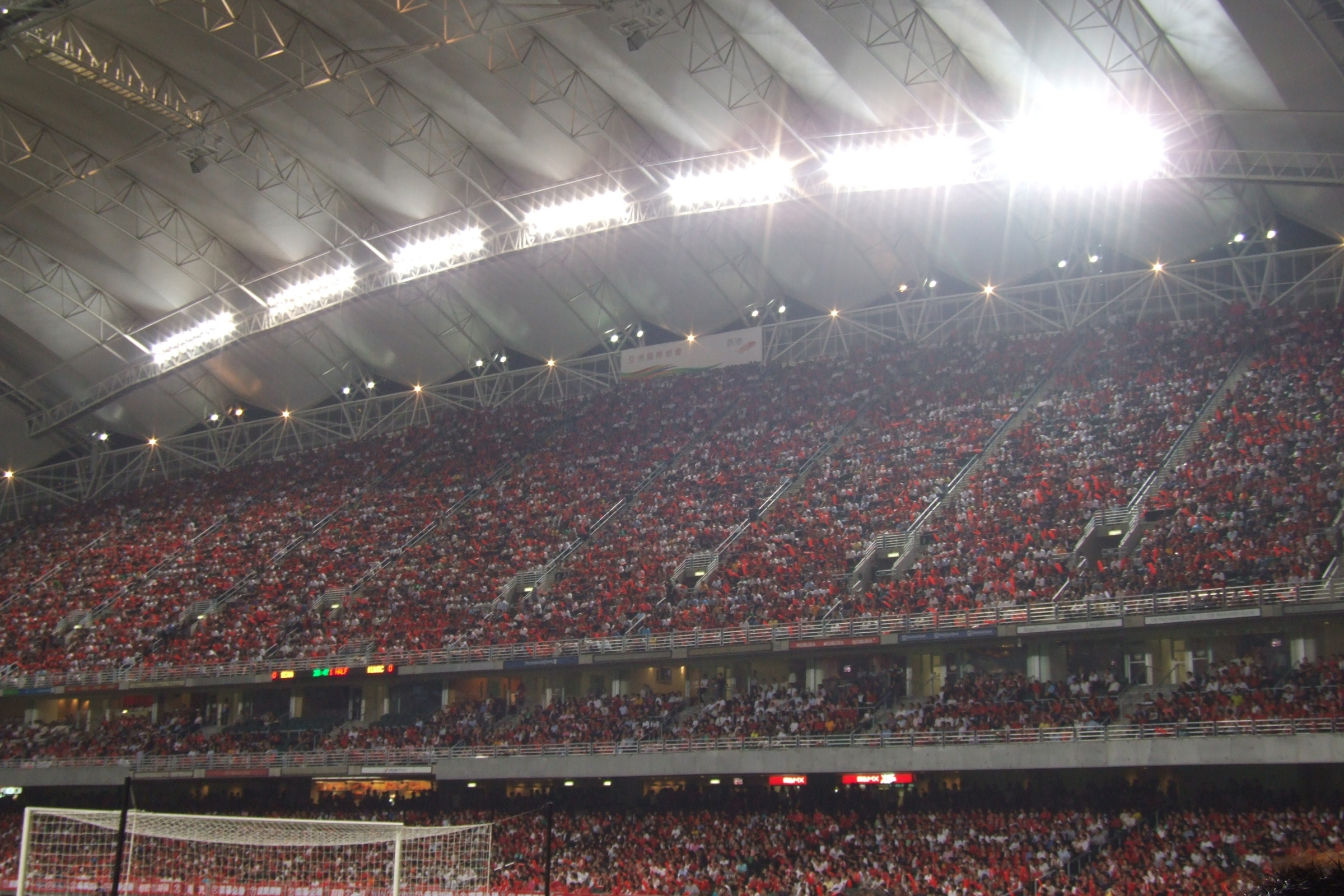 In The Hong Kong Stadium,Many people wear red clothes. 中文（香港）: 亞洲足協盃四強第二回合，香港大球場出現一片紅海，紅色為香港區旗和南華的球衣顏色。這次賽者都是香港大球場首次正式球賽全場爆滿。